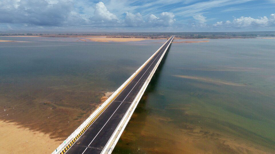 Tweet Text: Utkal Gourav Madhusudan Setu is a new milestone in development journey of #Odisha, a standing testament to our relentless efforts for high-class connectivity to every part of the state. In last 17 years, 318 major bridges built including 7 on Mahanadi river 2/2 #OdishaOnTheMove